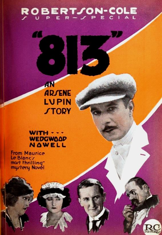 Advertisement for the American mystery film 813 (1920) with Wedgwood Nowell, the other actors are not identified, from the insert after page 18 of the November 27, 1920 Exhibitors Herald.